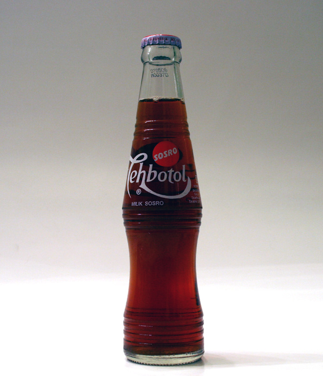 Teh Botol Sosro, jasmine tea drink by Sosro from Indonesia. Category:Drink images